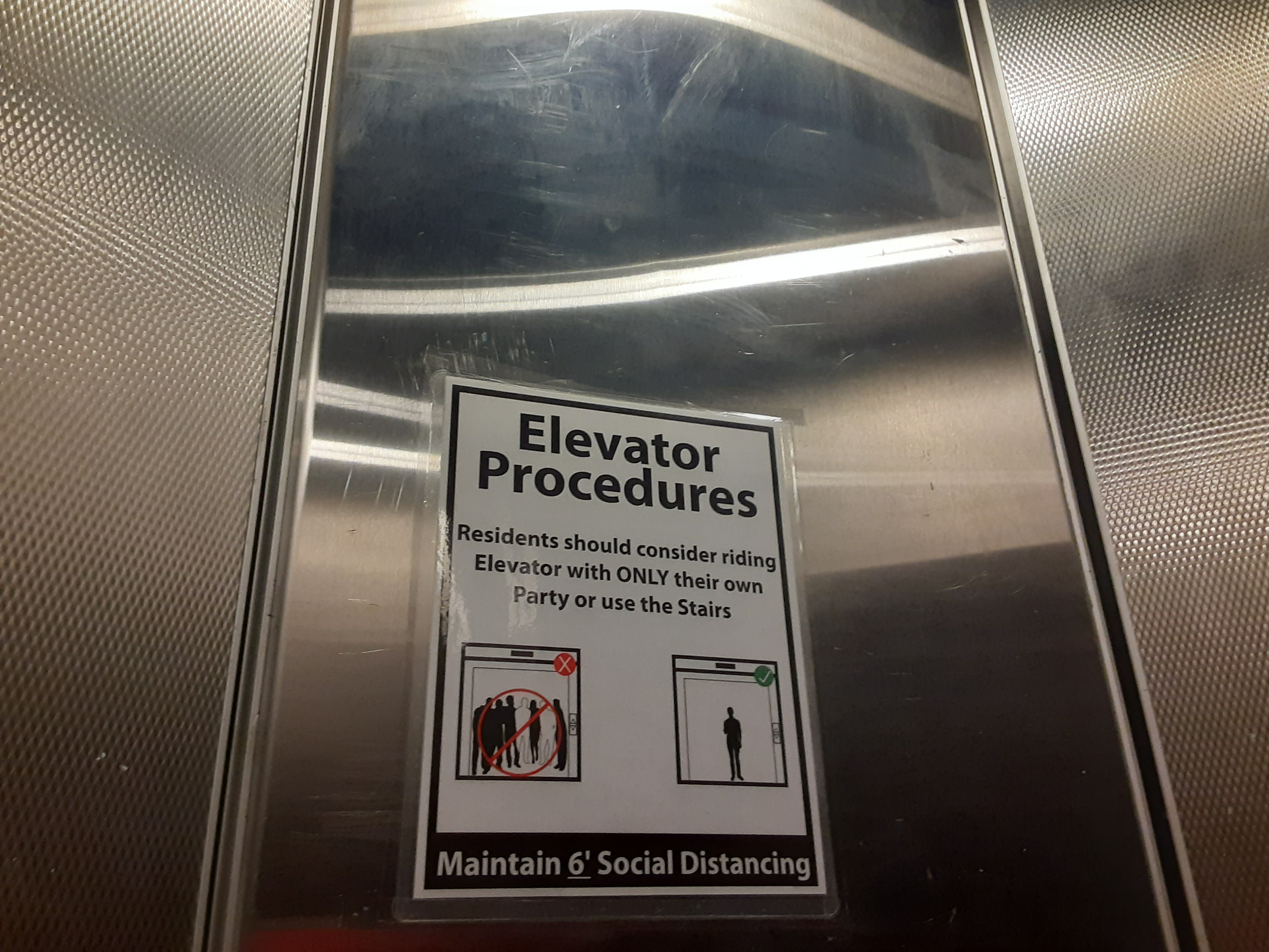 Elevator social distancing sign New York City COVID19 Pandemic May 2020